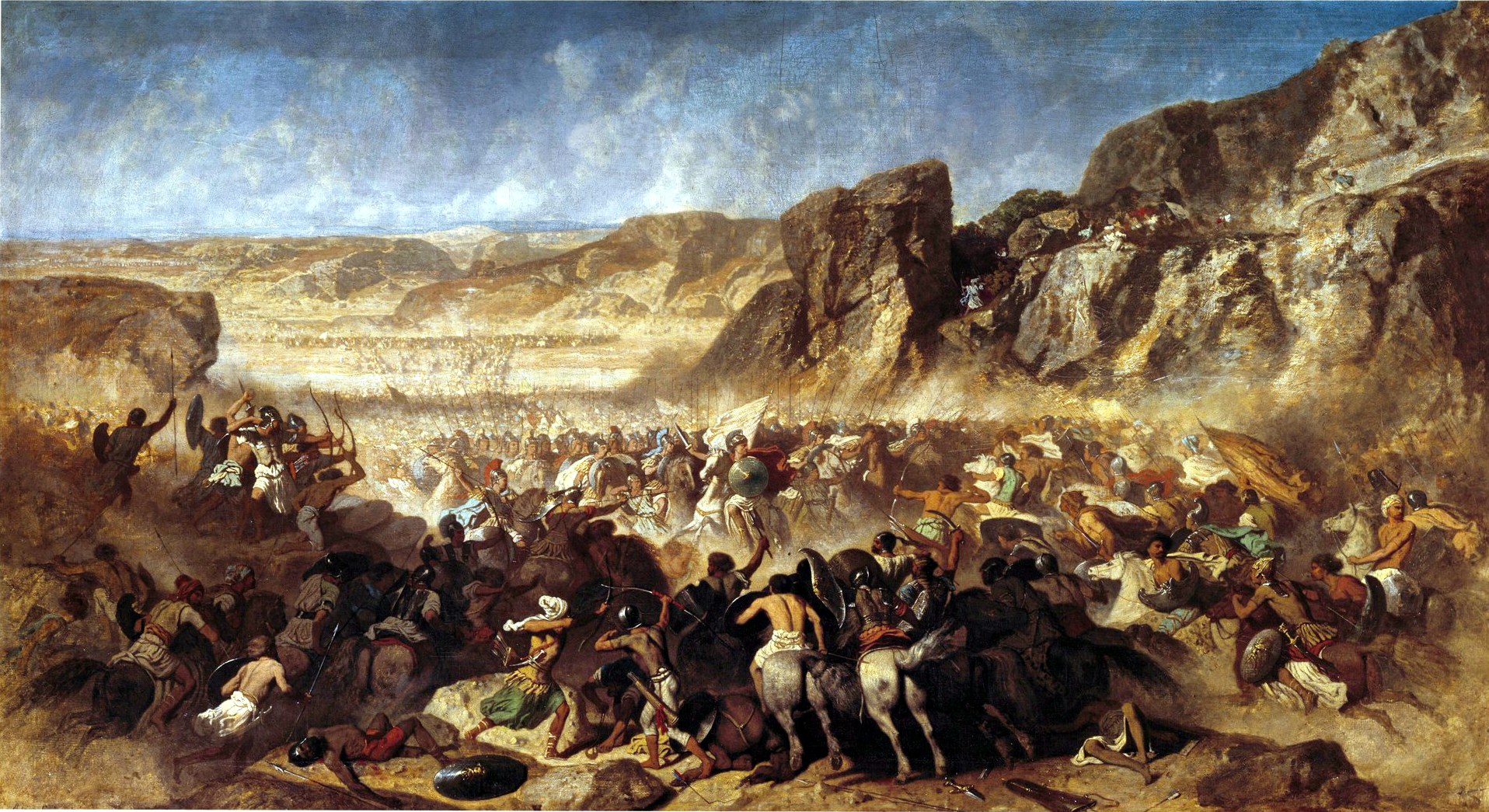 The Battle of Cunaxa fought between the Persians and ten thousand Greek mercenaries of Cyrus the Young, 401 BC. Louvre, Paris.